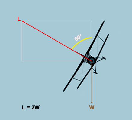 In straight and level flight lift (L) equals weight (W). In a banked turn of 60°, lift equals double the weight (L=2W). The pilot experiences 2g. The steeper the bank, the greater the g-forces.